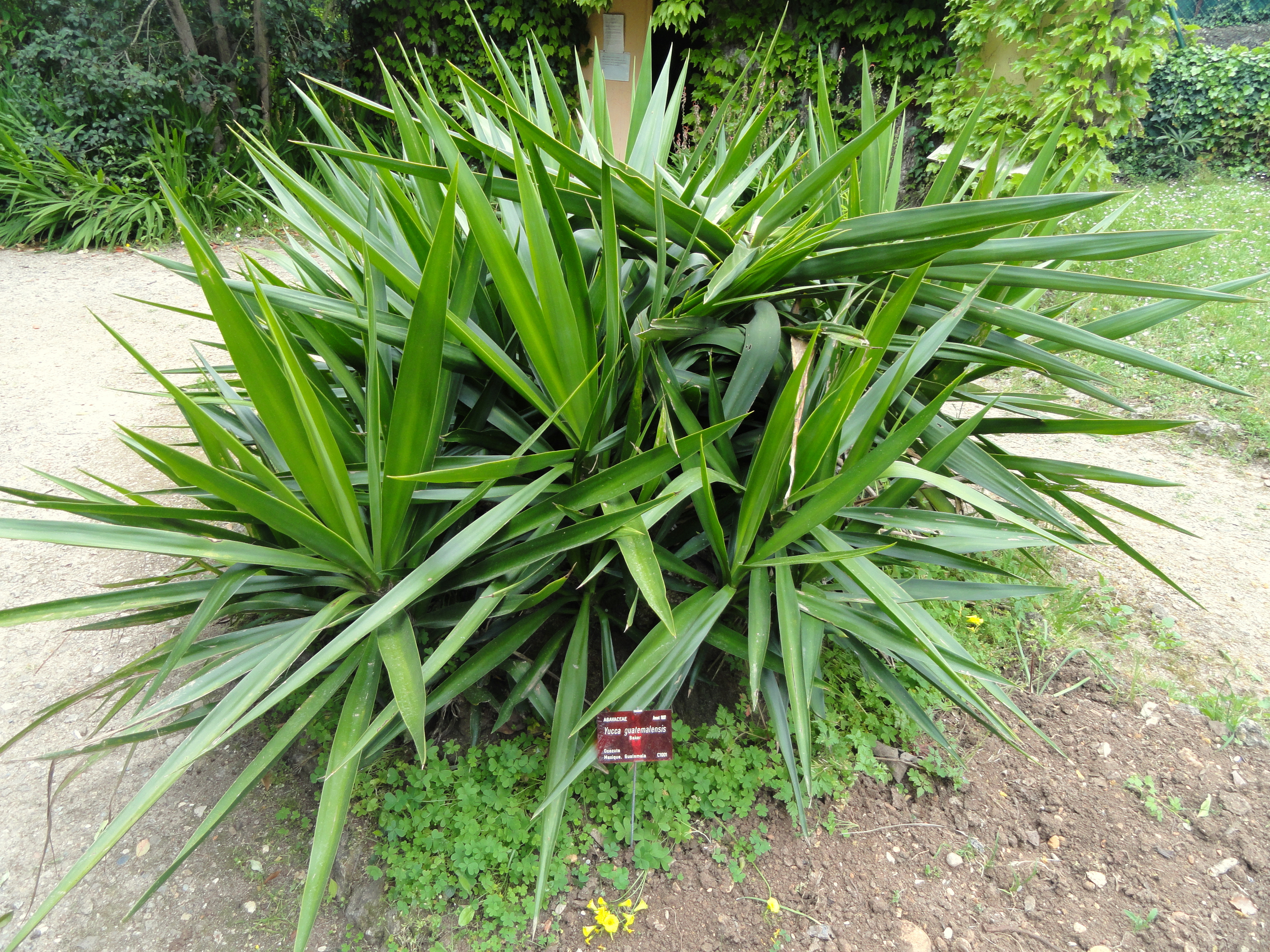 Yucca guatemalensis specimen in the Jardin botanique de la Villa Thuret, Antibes Juan-les-Pins, Alpes-Maritimes, France.